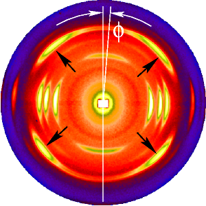 raw fiber diffraction pattern of polypropylene in pseudo color on a logarithmic scale with rotation angle indicated and indications of reflexions good for tilt-angle determination